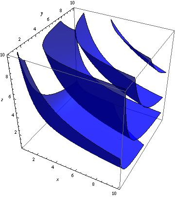 Indifference curves with three goods